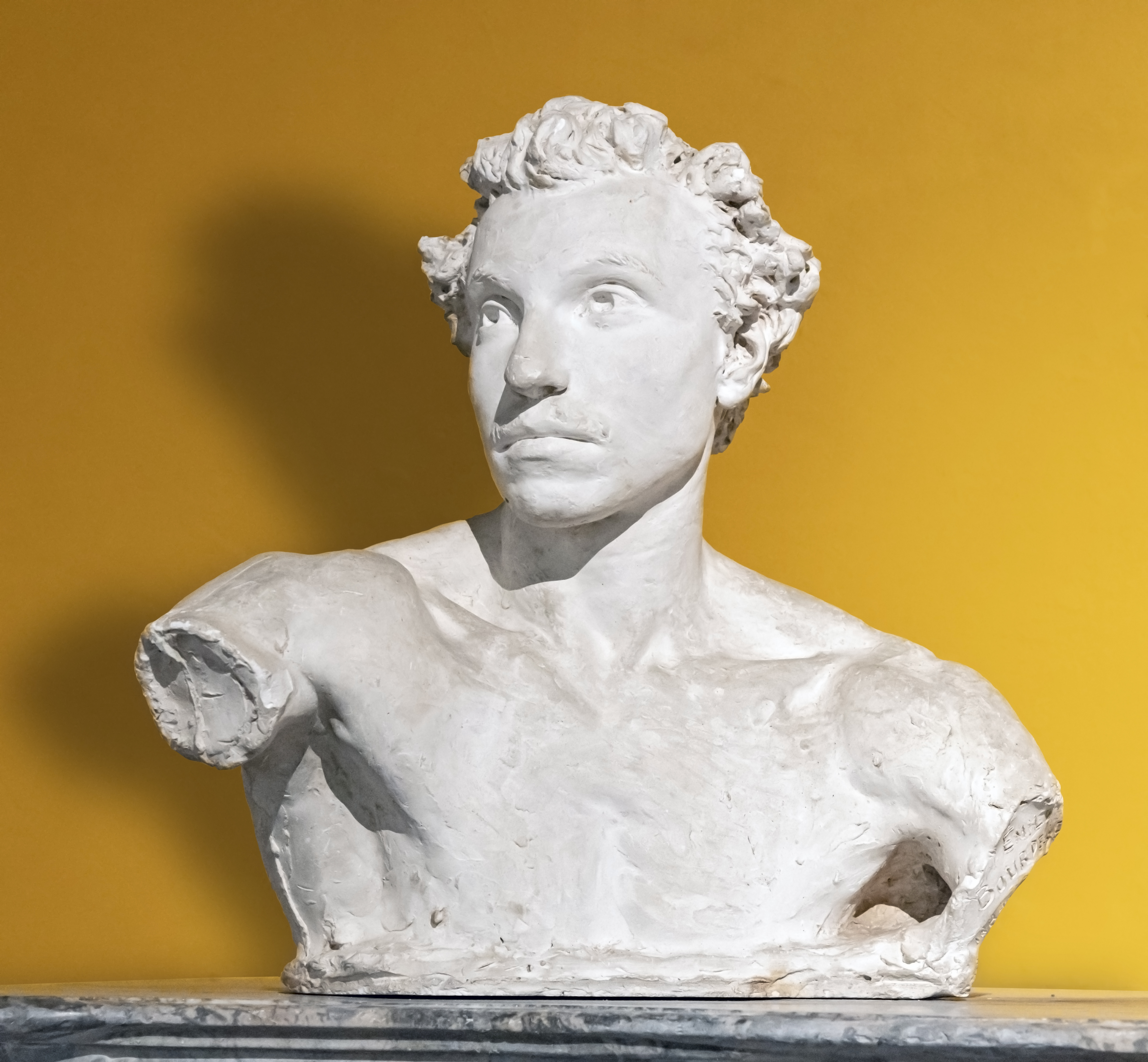 Depicted person: Achille Laugé – French painter